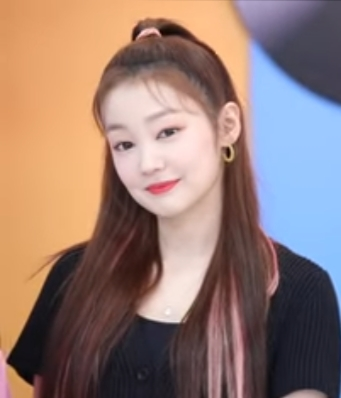 Ytb Léa on SN